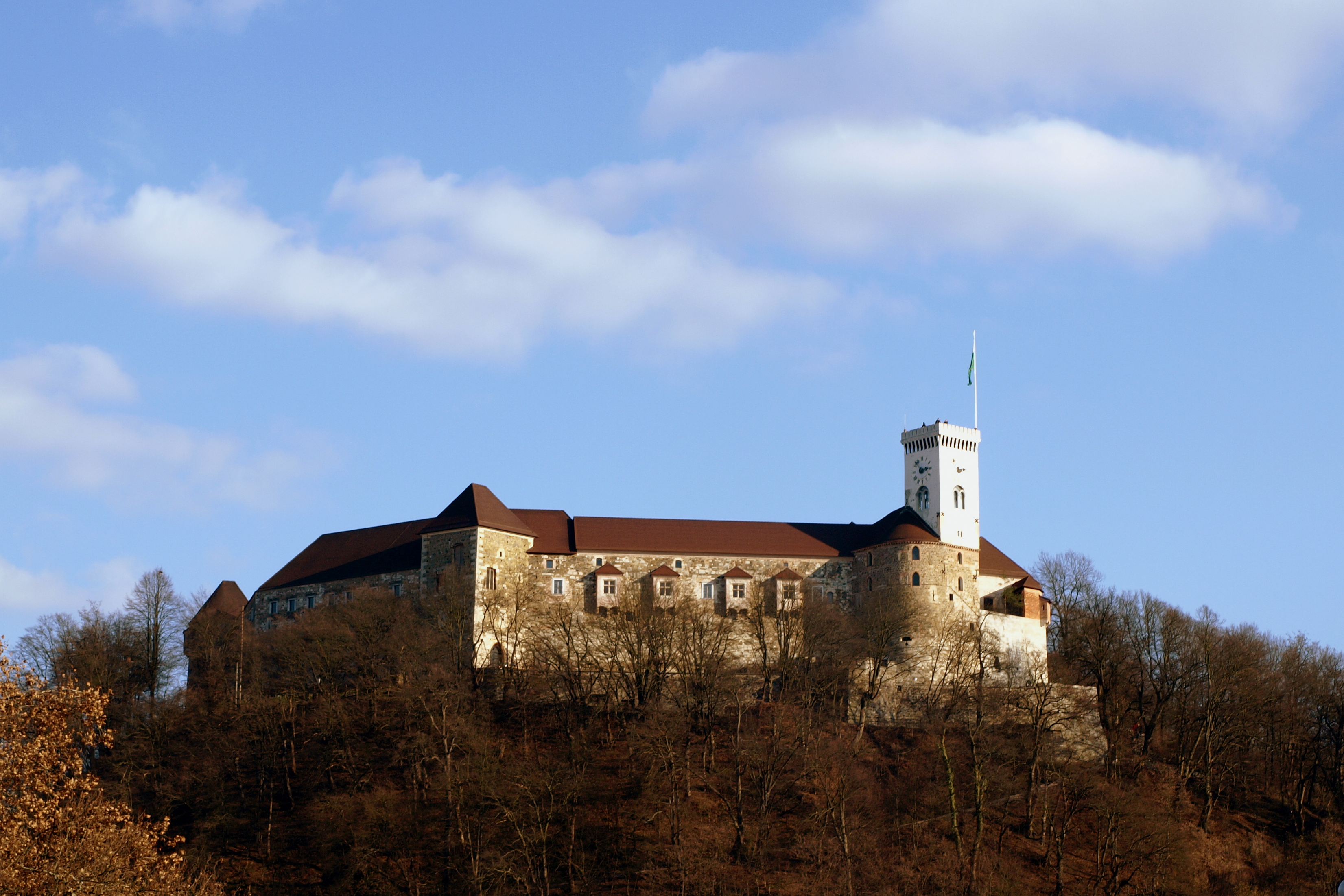 Ljubljana Castle as seen from University Building